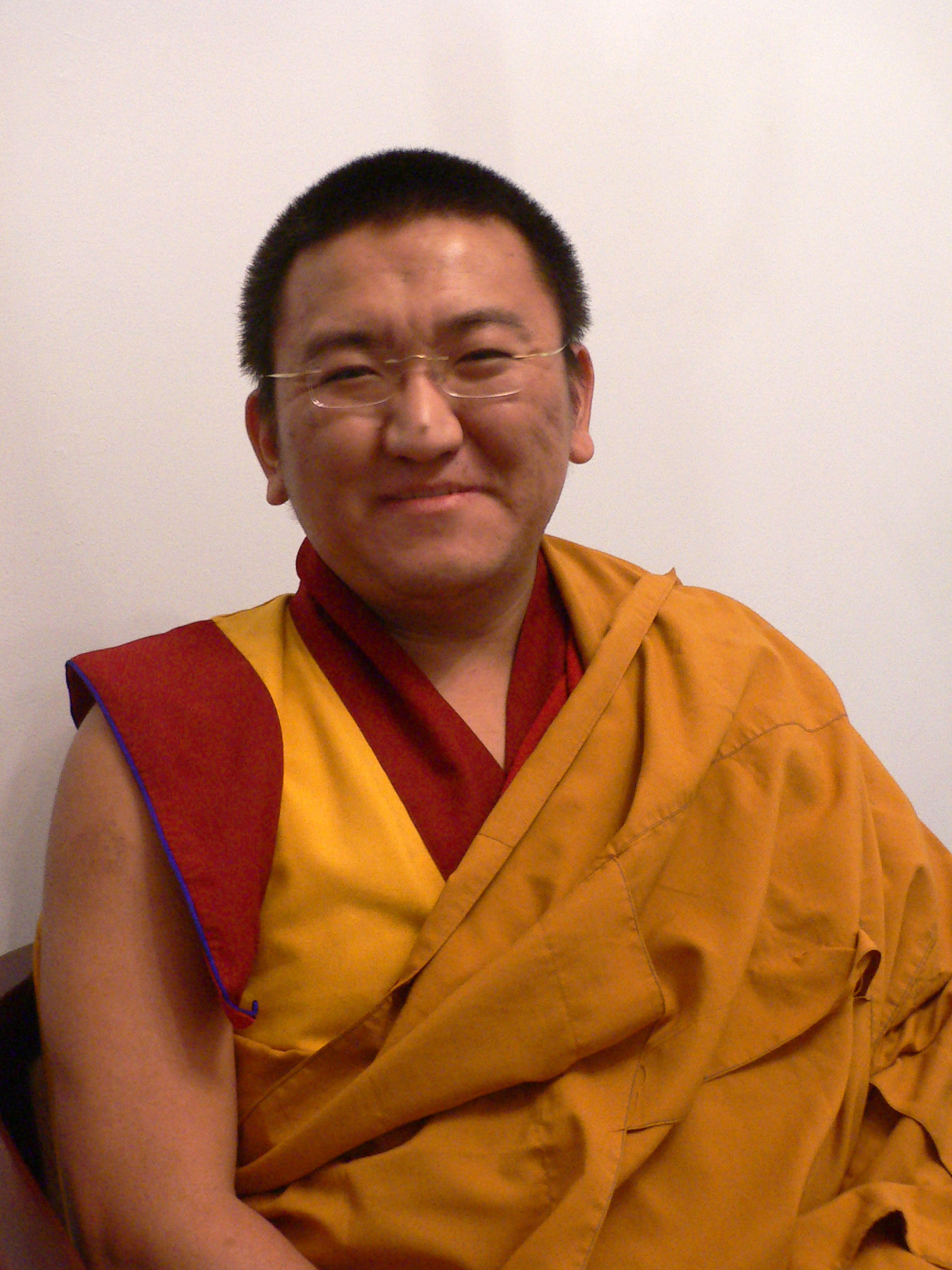 Photo by: Ron Greenberg 2005